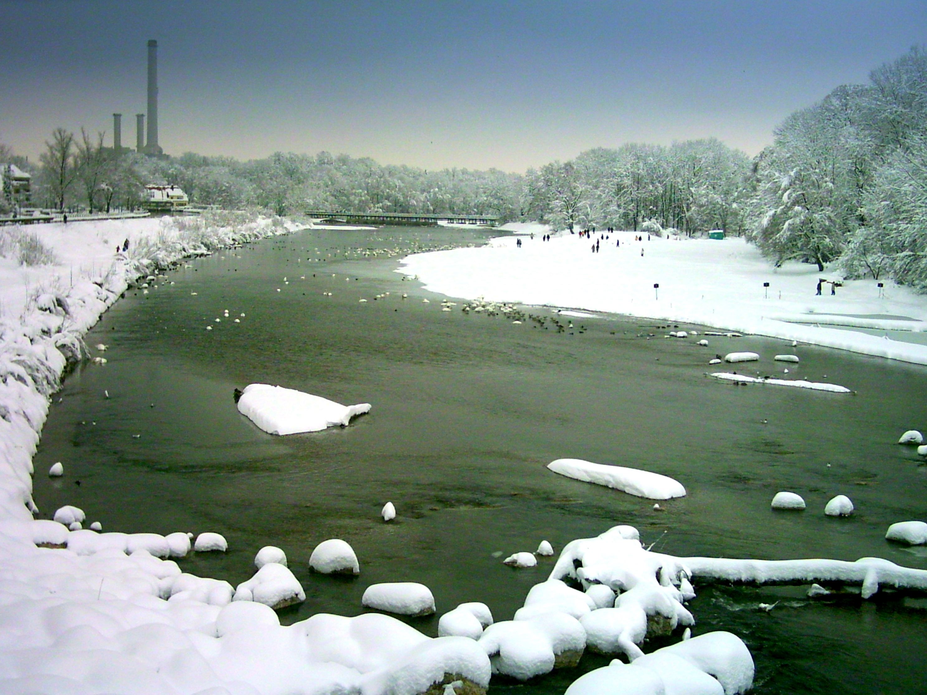 Winter impression of Flaucher area at river Isar in the southern part of Munich: View from Thalkirchner Brücke towards Flauchersteg, left side Isarwerkkanal and Isarwerk II, in the background Heizkraftwerk Süd.